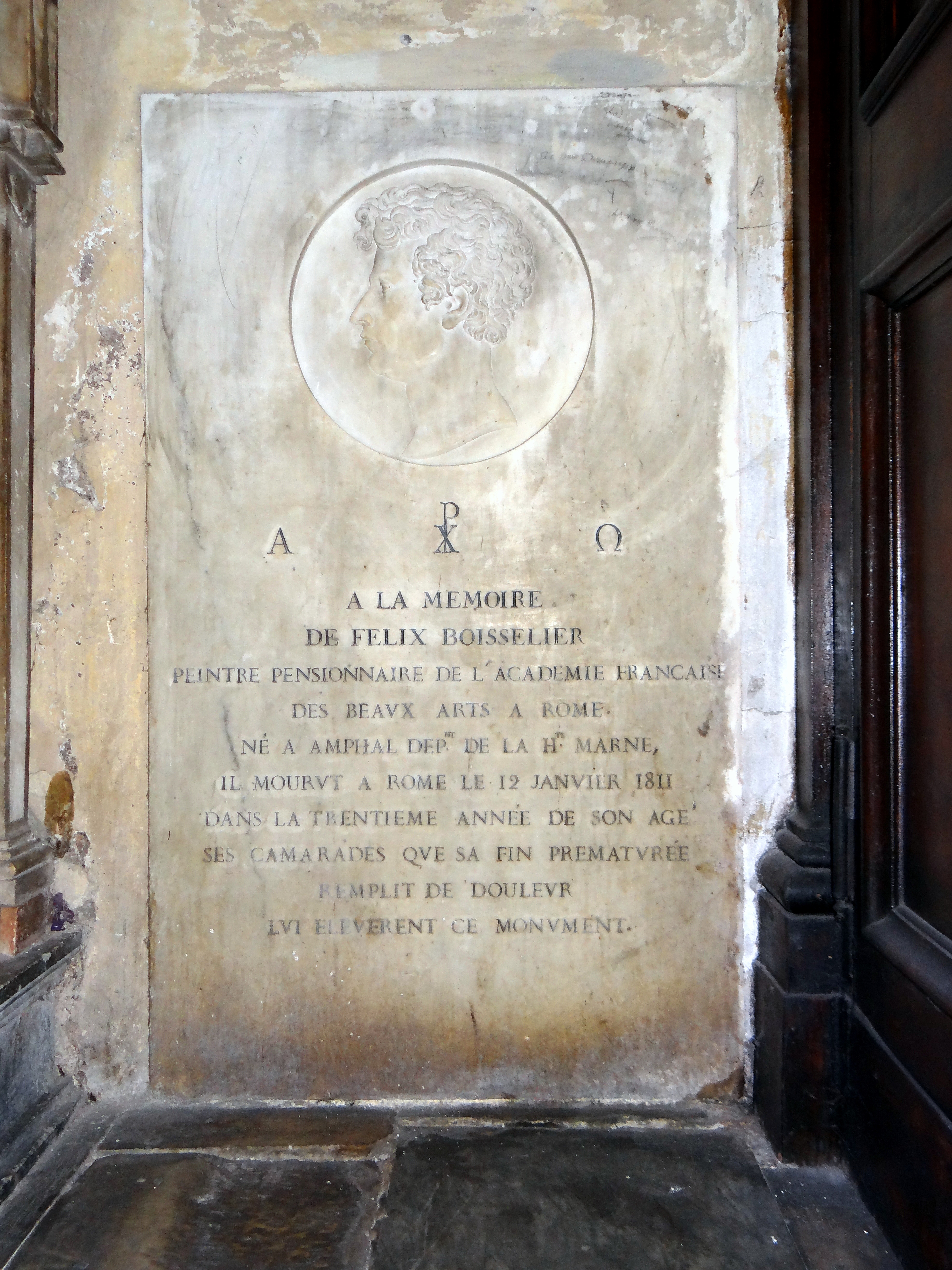 The stele of Félix Boisselier, French painter in the Santa Maria del Popolo, Rome (after 1811).